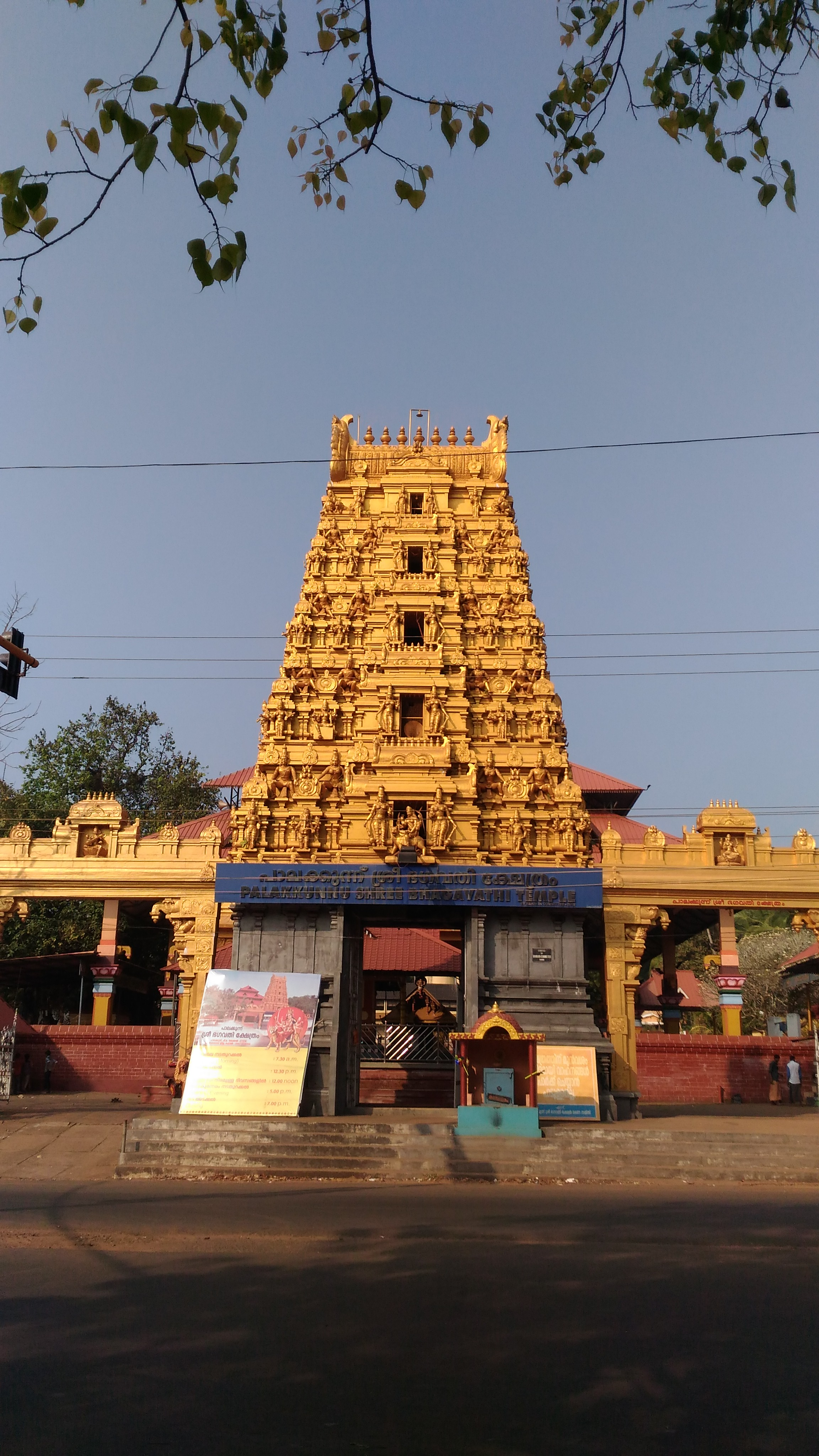 Bagavathy Temple Palakkunnu, Kasaragod, Kerala